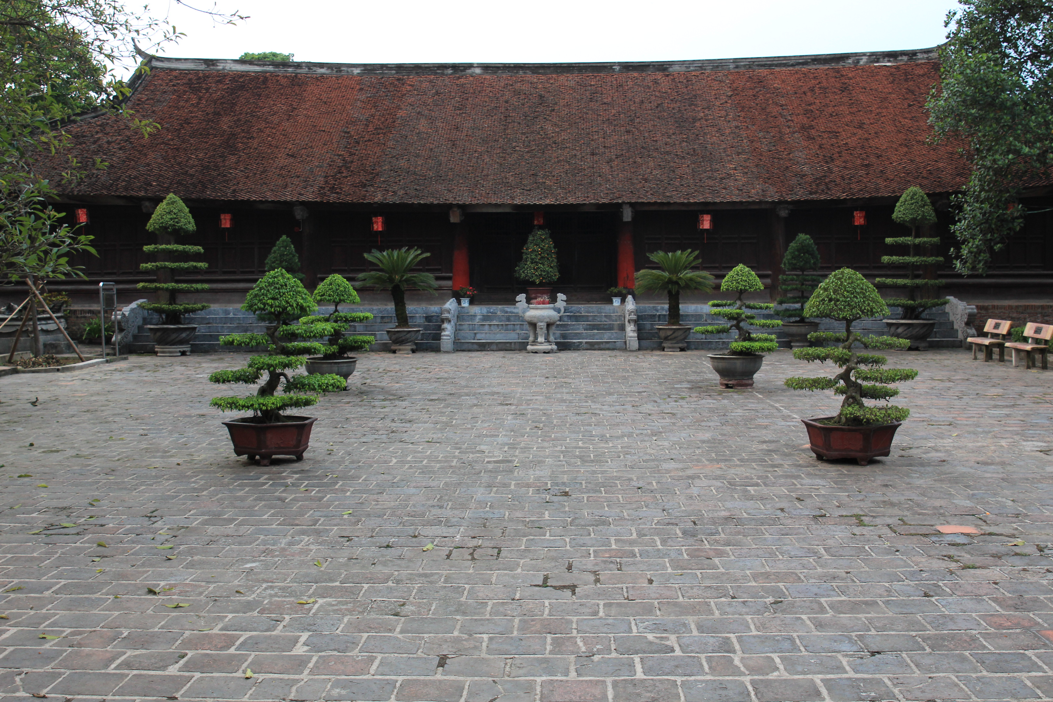 Ngự Triều Di Quy communal house inside Cổ Loa Citadel